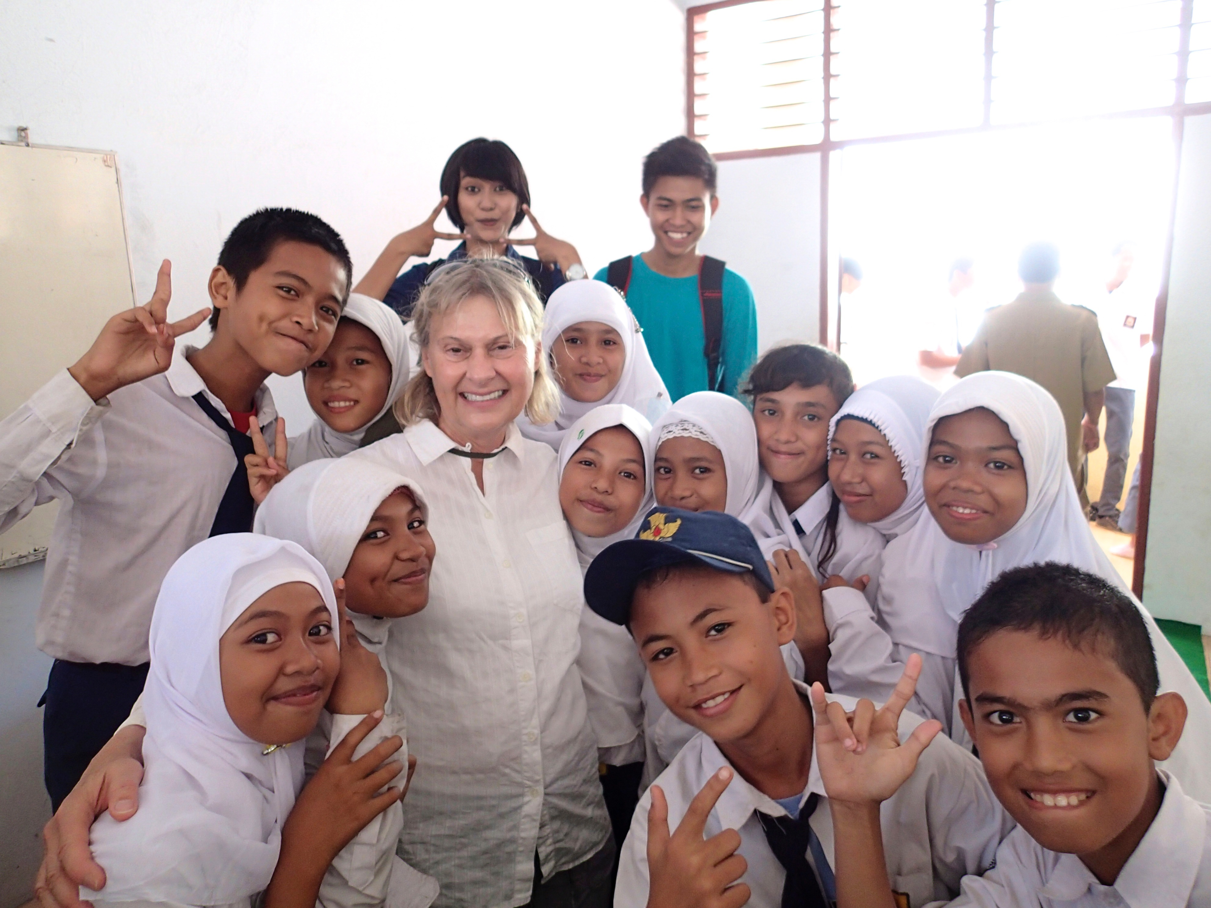 Susan Williams doing outreach about marine debris at a school on the Spermonde Islands.